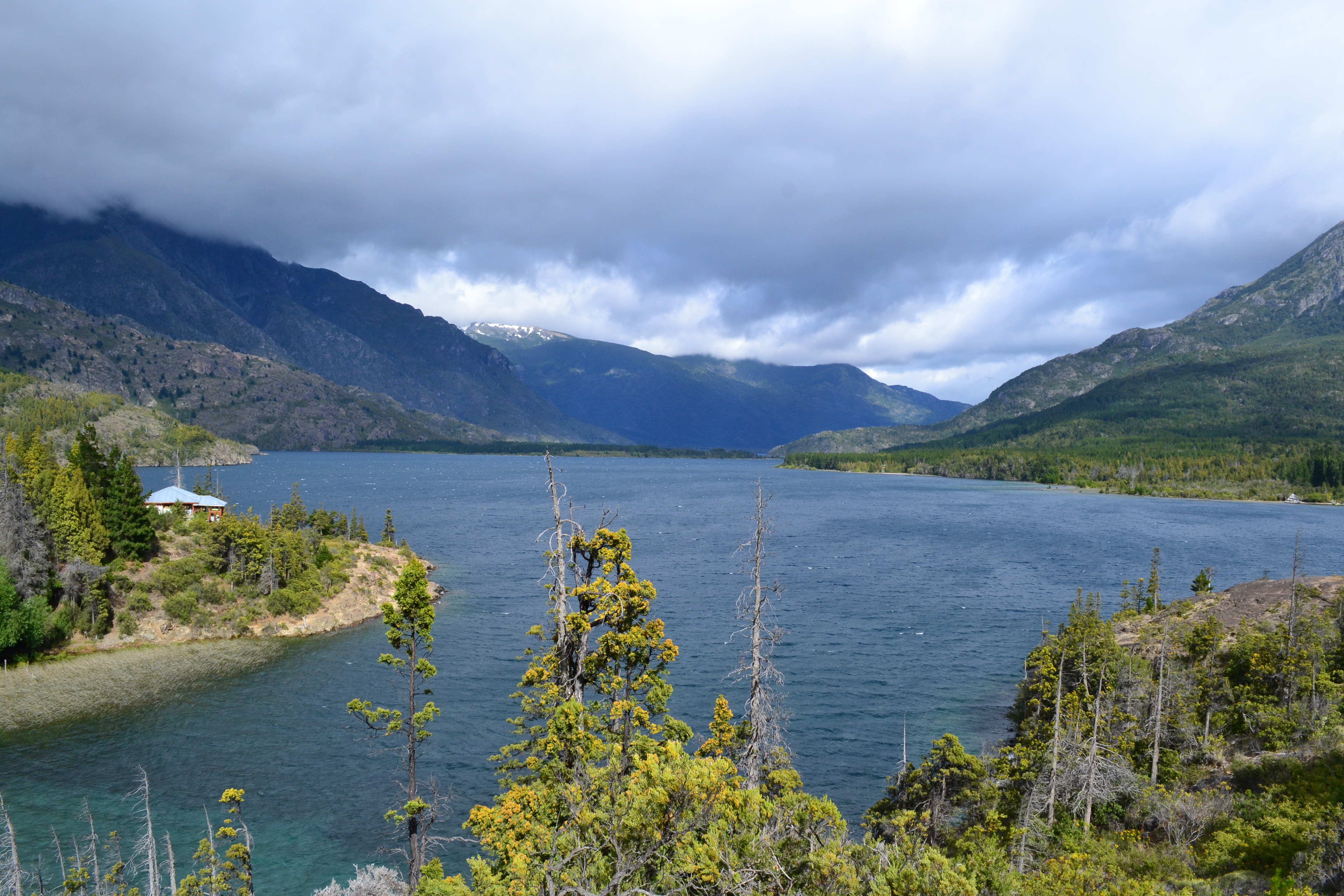 Lake Epuyén Viewpoint, to the left cultural centre Antu Cuyen, at the right the floating pyramid of sculptor Eduardo Iuso